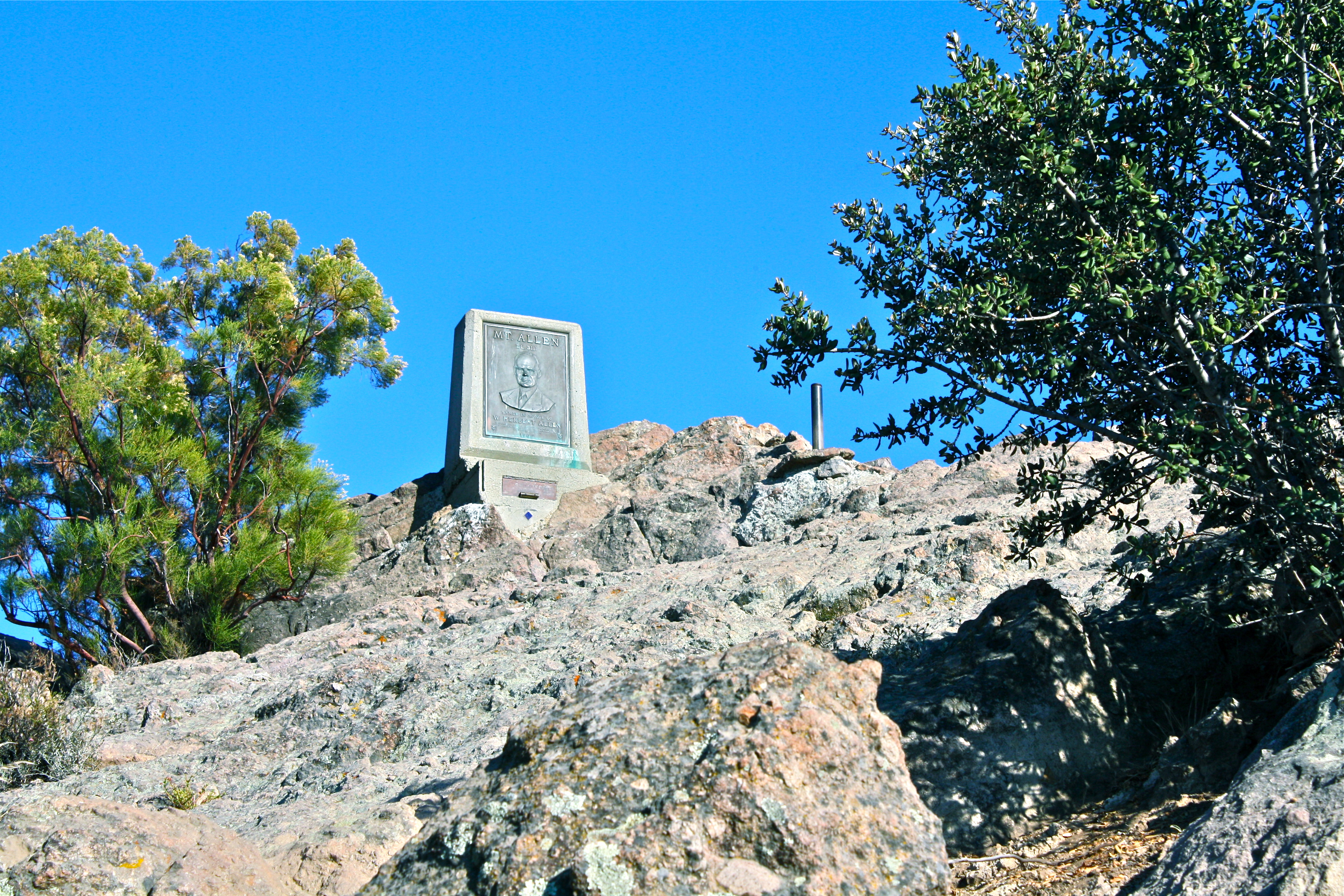 Plaque at summit of Mt. Allen. Malibu, California.